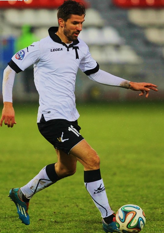 Dalibor Stevanović